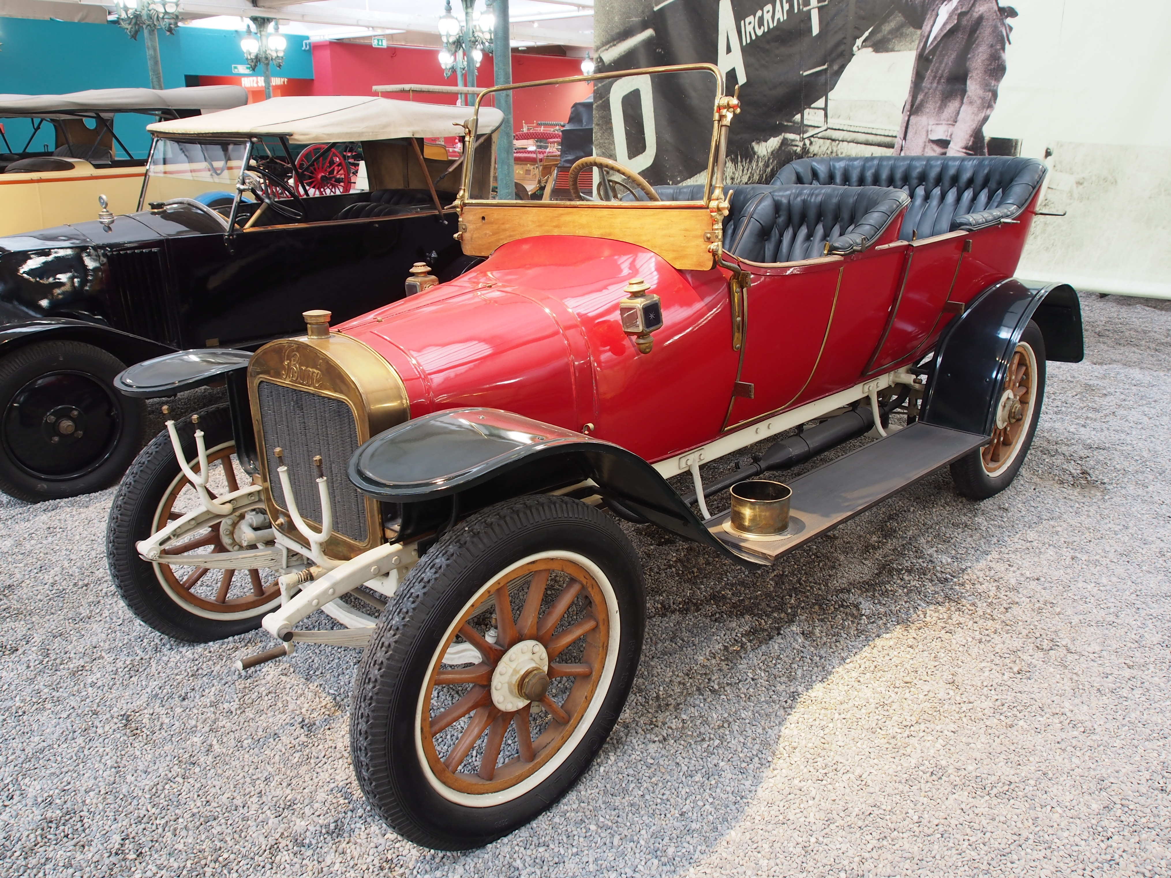 Photographed at the Cité de l'Automobile, France.